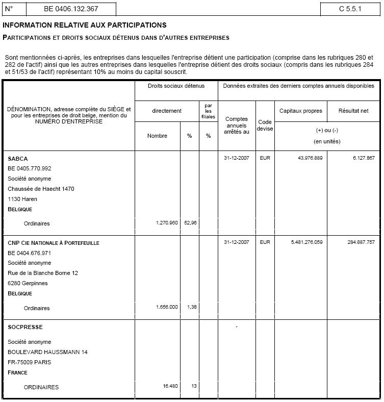 Shareholding af au subsidiary of Groupe Industriel Marcel Dassault dans le Groupe Frère